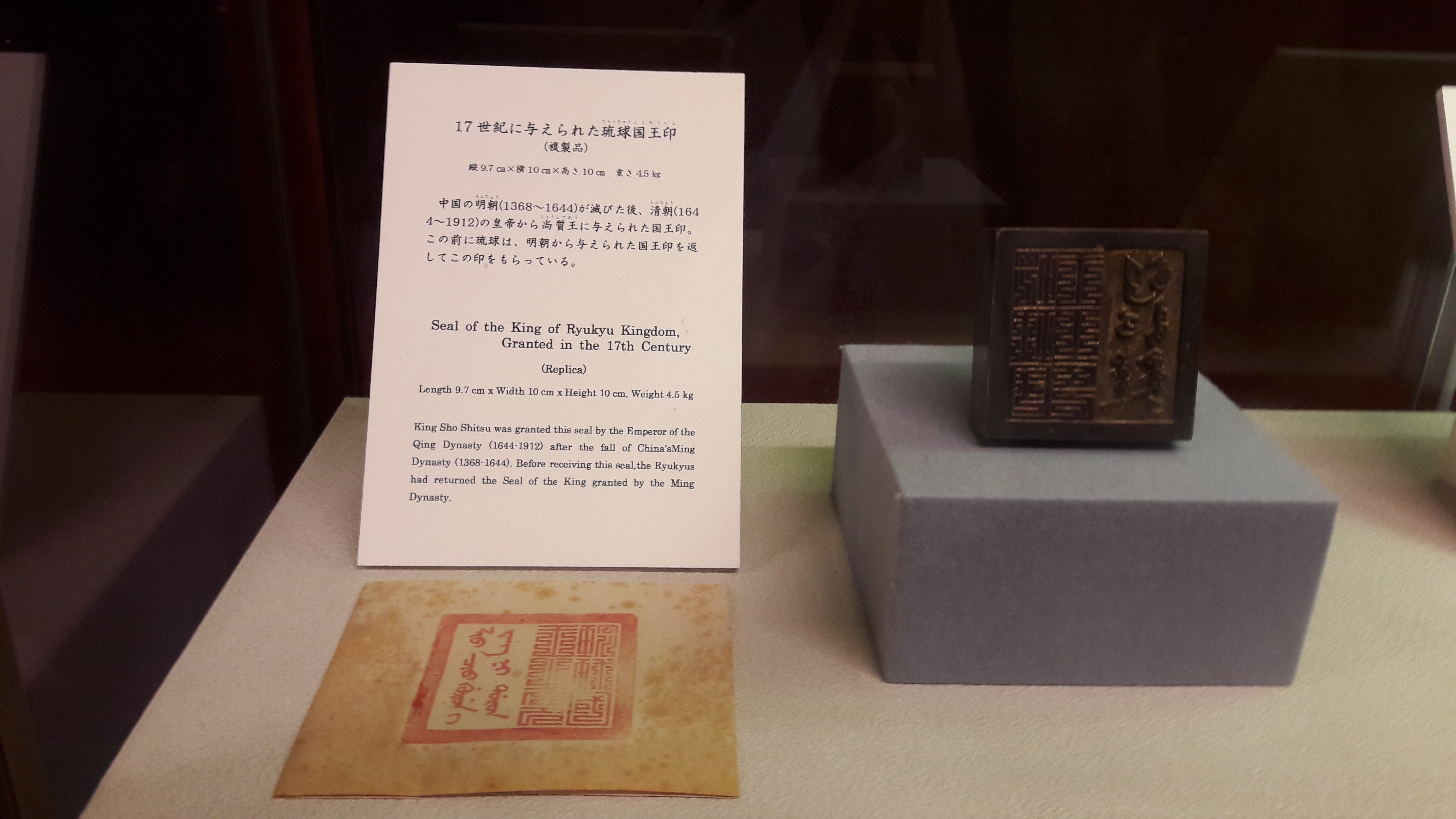 king of Ryūkyū kingdom seal. It was granted by Manchu China Emperor during the Qing Dynasty. It is wrote in manchu on the left and chinese in the right. It is now in the Shuri Castle, in Naha, Okinawa.